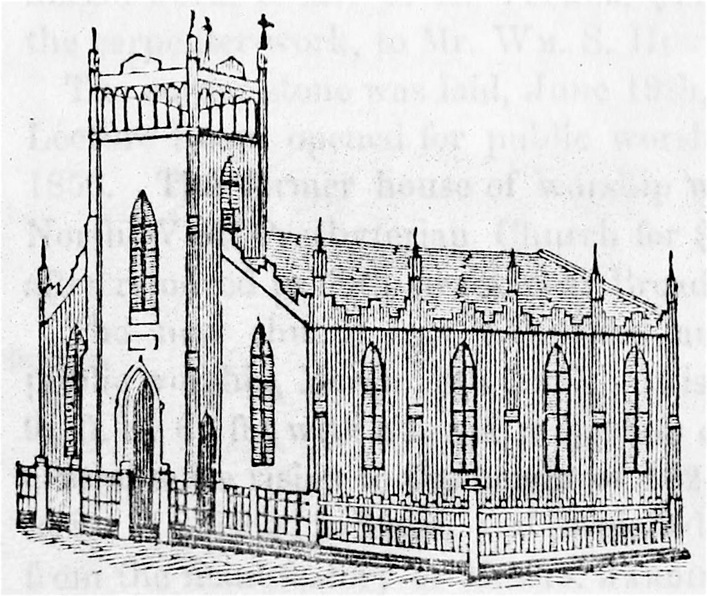 Engraving of North Presbyterian Church, south side of 32nd Street between 8th and 9th Avenue.